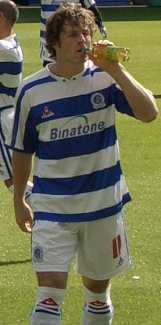 Gareth Ainsworth. Image cropped from original at flickr.